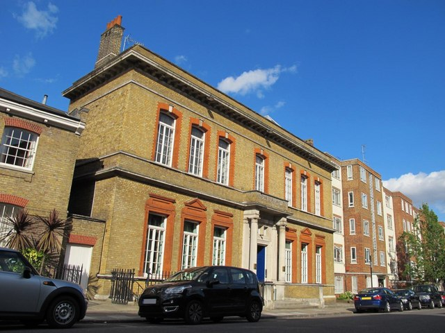 RAK Recording Studios, Charlbert Street, NW8